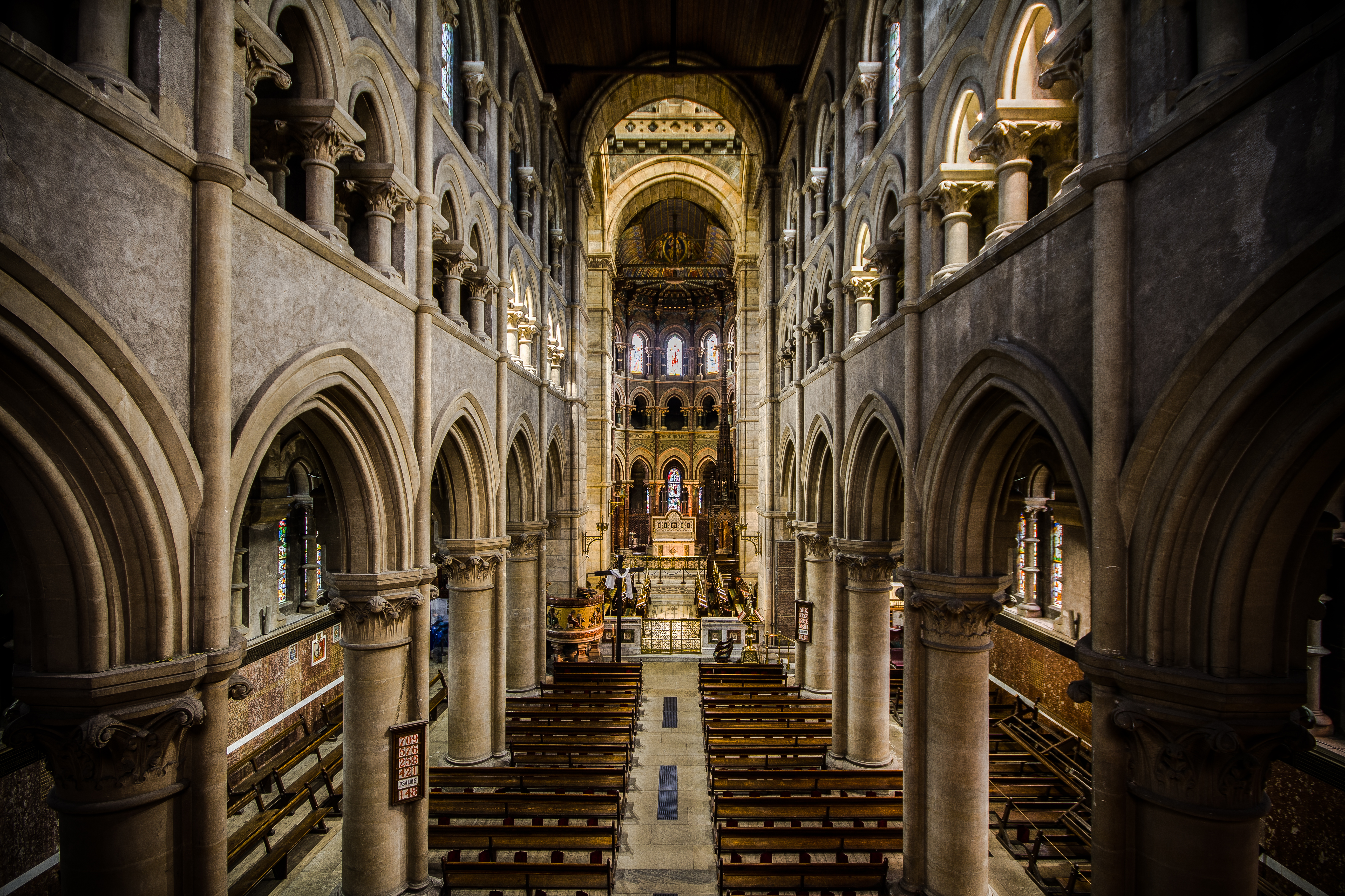 St Finbarres Cathedral